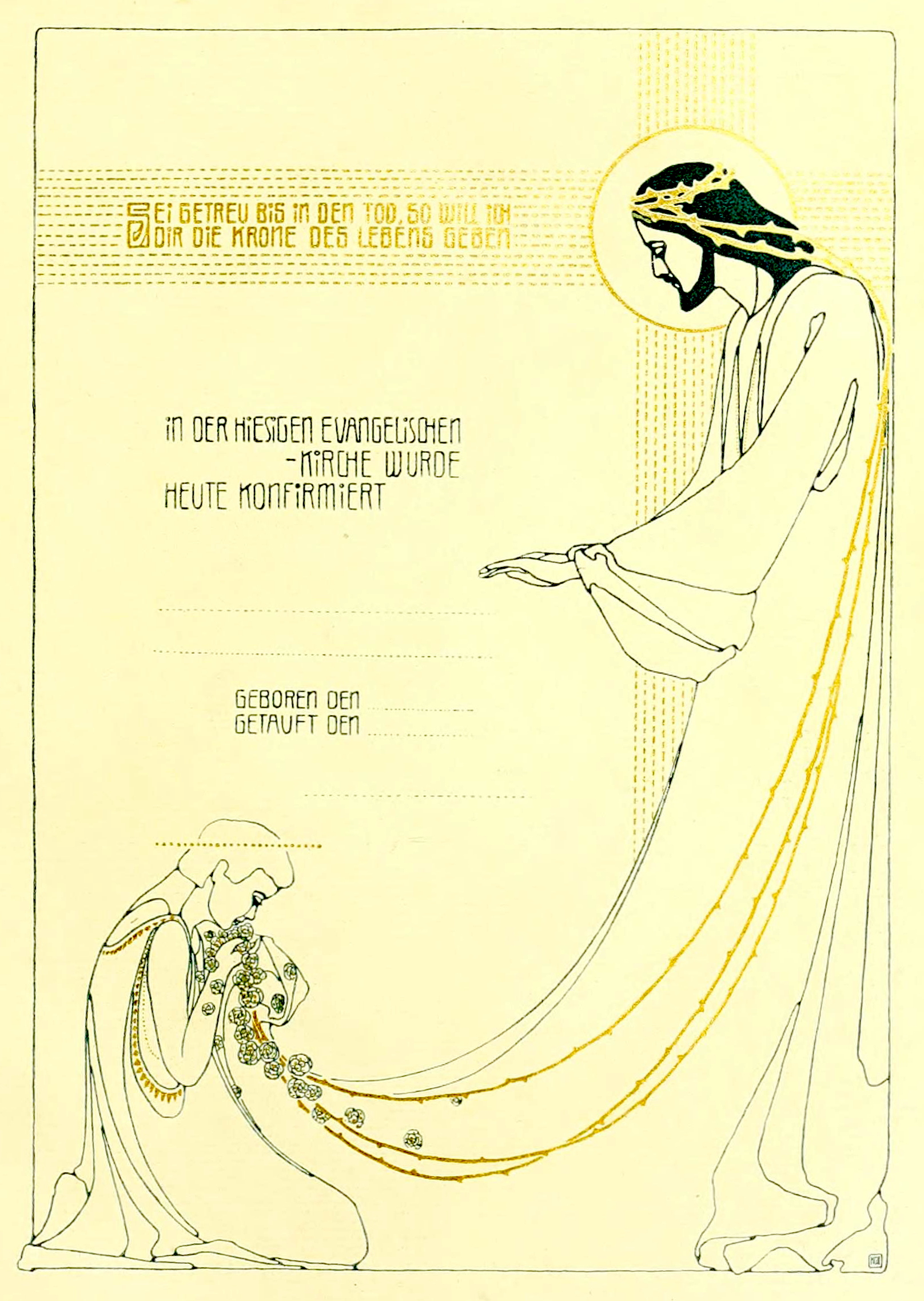 Konfirmationsschein.